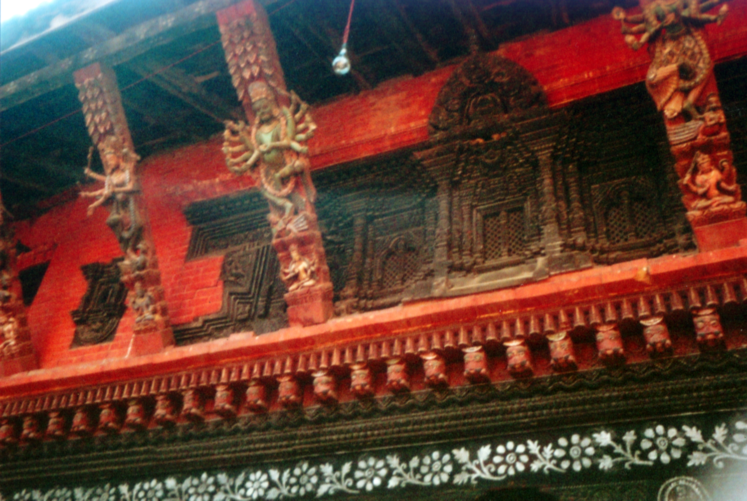 Wooden carved tracery. Bhaktapur, Nepal.